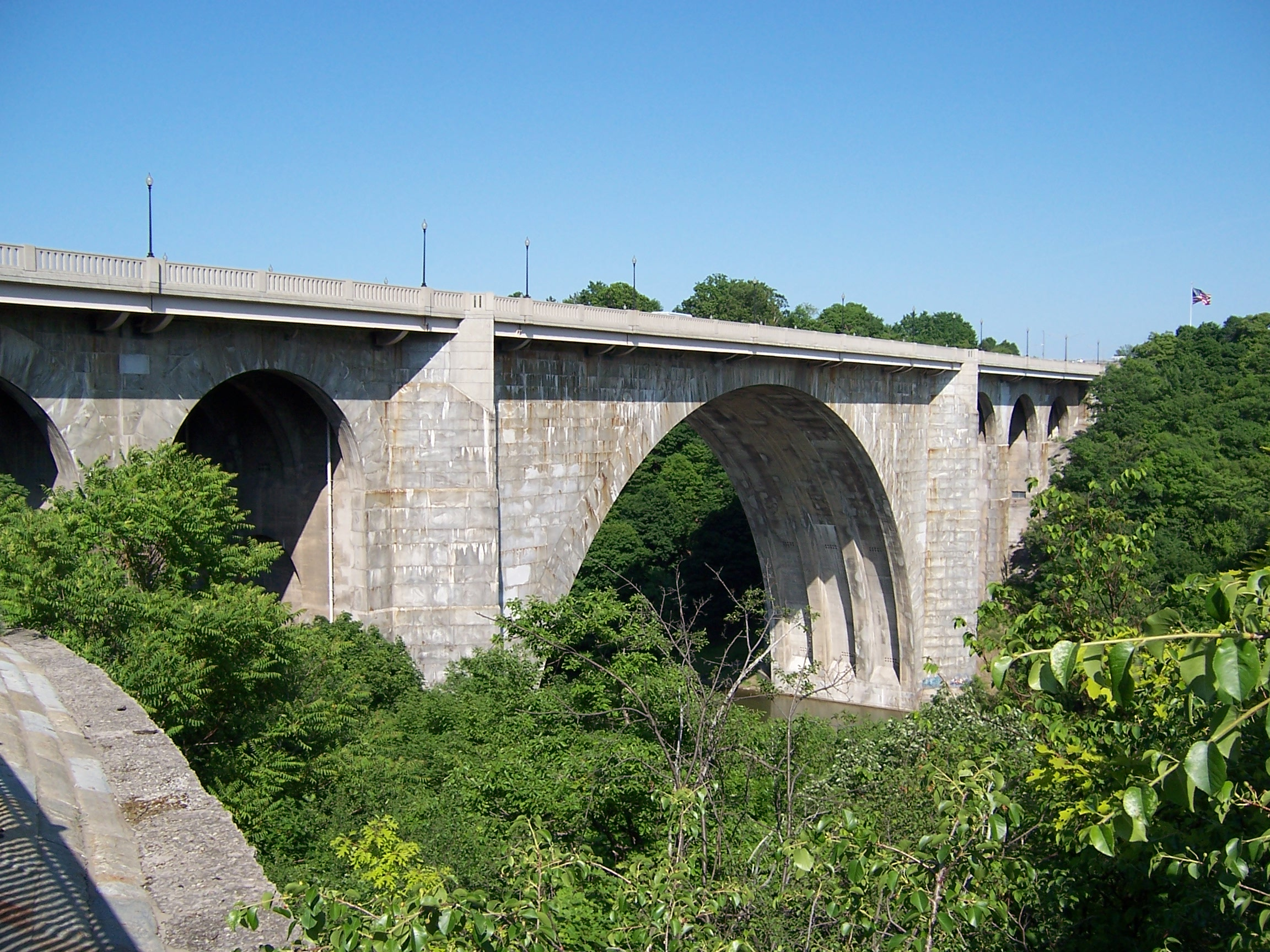 The Veterans Memorial Bridge in Rochester, New York. The bridge, opened in 1931, carries State Route 104 over the Genesee River. The camera is facing almost due east; Route 104 runs northwest to southeast, left to right.